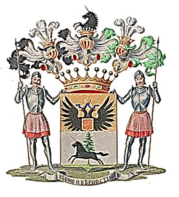 Coat of arms of the Counts of Essen family.